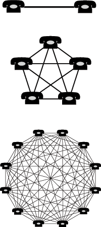 Diagram showing the network effect in a few simple phone networks. Lines represent potential calls between phones. Created by Derrick Coetzee in Adobe Illustrator and Photoshop. Its creator irrevocably releases all rights to the image and grants it into the public domain. in india ... meerut...